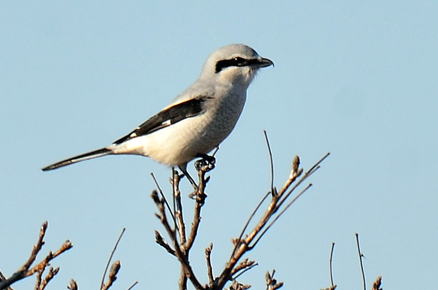 Glacial Park McHenry County, IL [1] To the extent possible under law, CheapShot has waived all copyright and related or neighboring rights to Photos. This work is published from: United States.